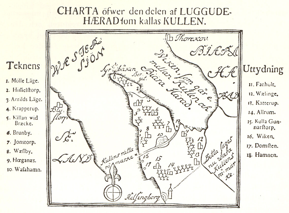 Map of Kullen, Sweden, from 1754